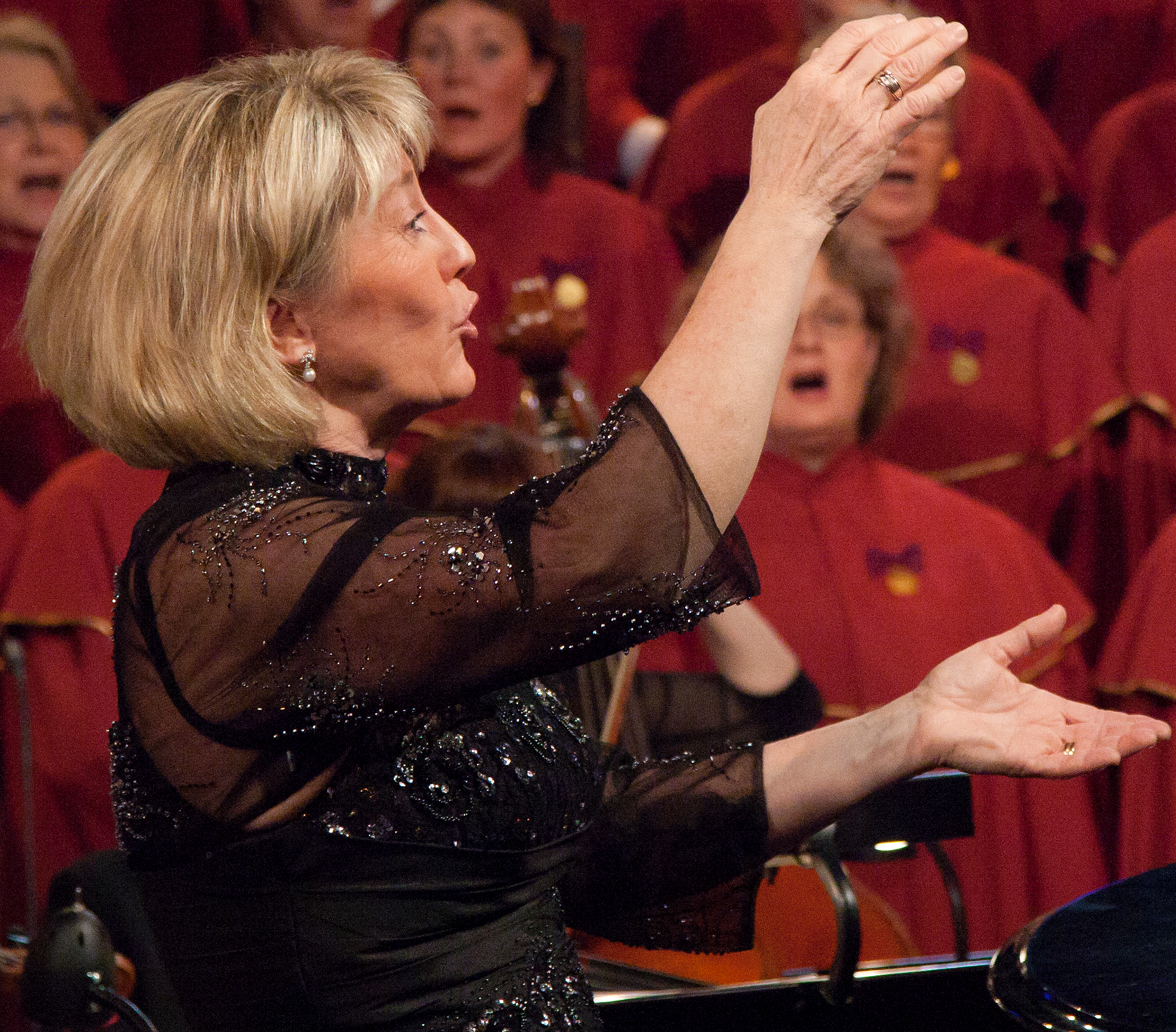 Marie J:son Lindh Nordenmalm is conducting her church choir